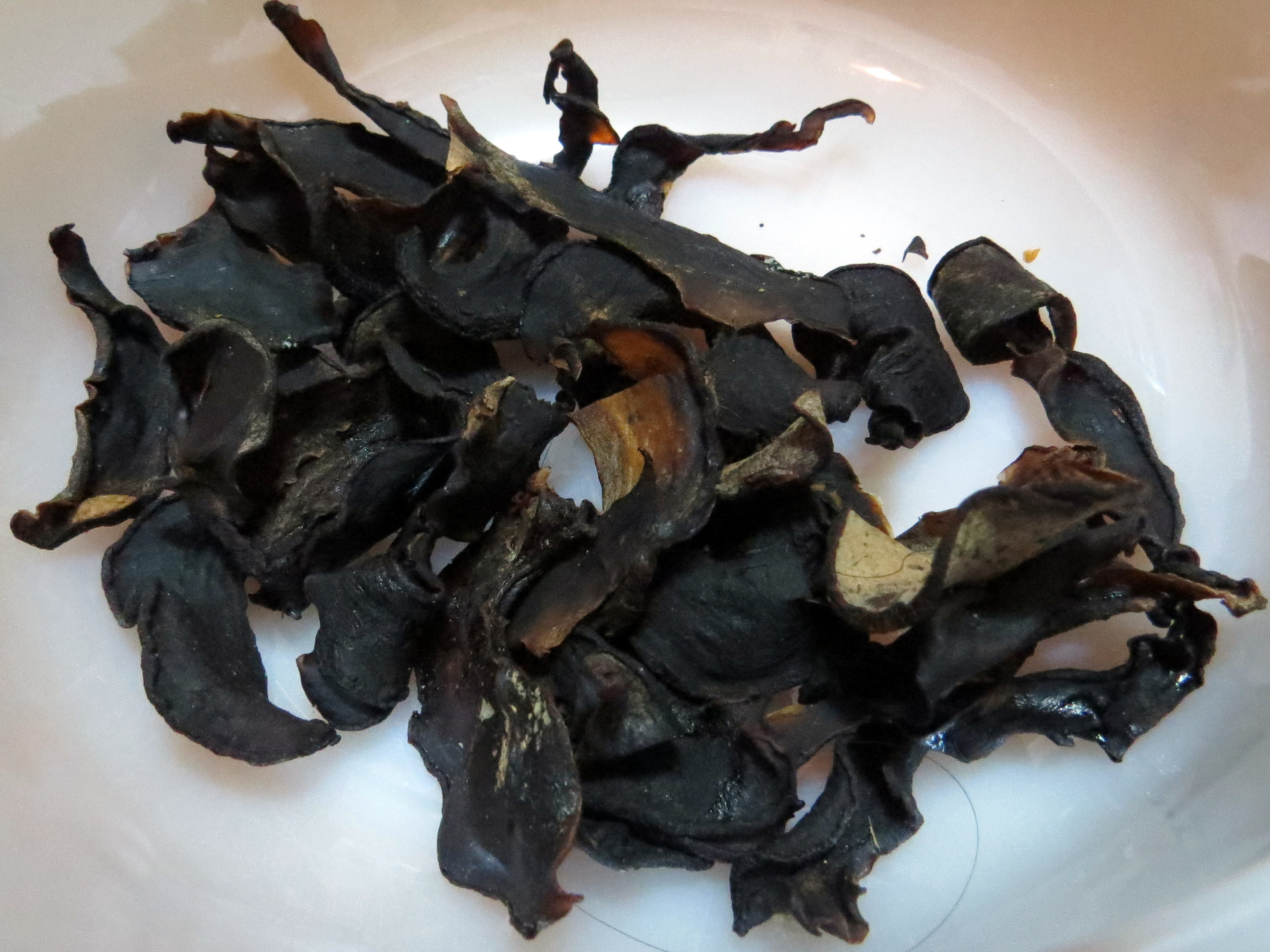 Asam Gelugor / Asam keping kering